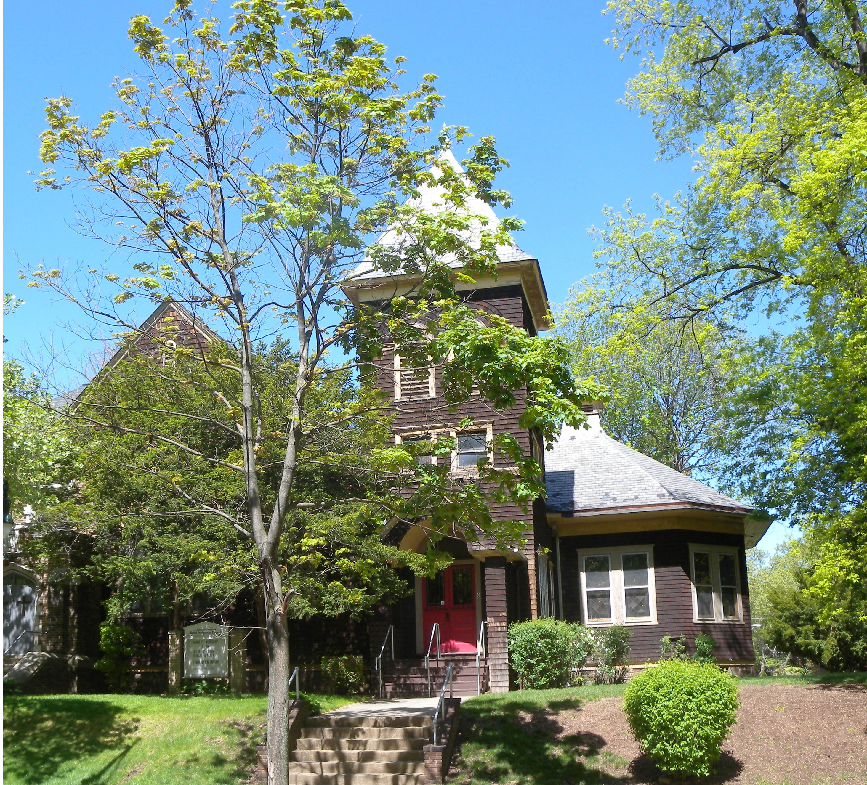 Looking northwest at Elizabeth Avenue - Weequahic United Presbyterian Church on a sunny morning.